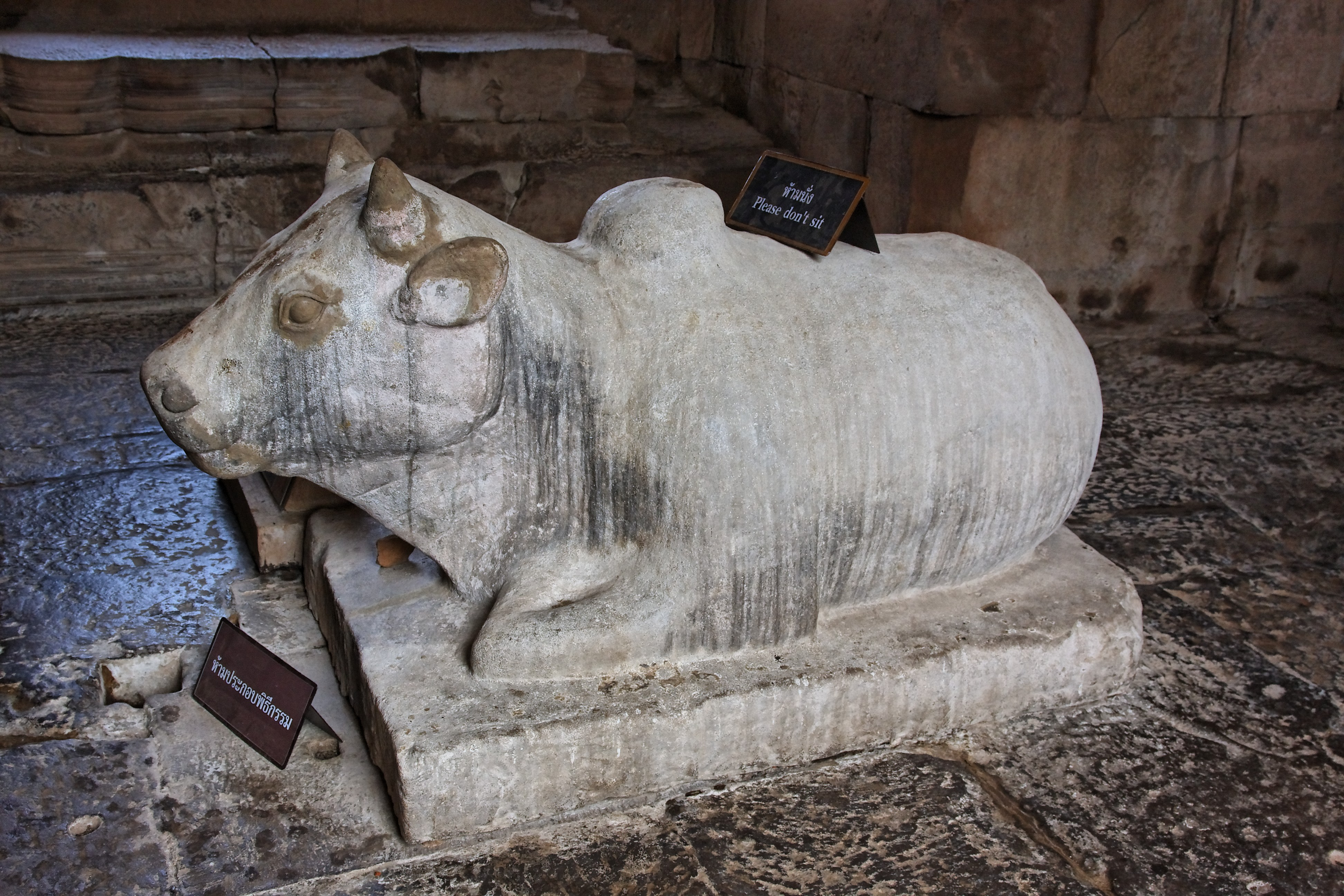 Prasat Phnom Rung, Thailand